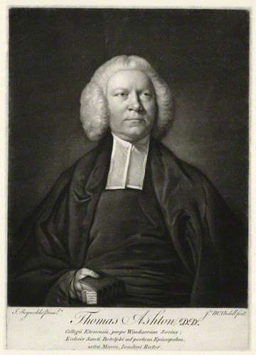 Portrait of Thomas Ashton (1716–1775), English cleric.